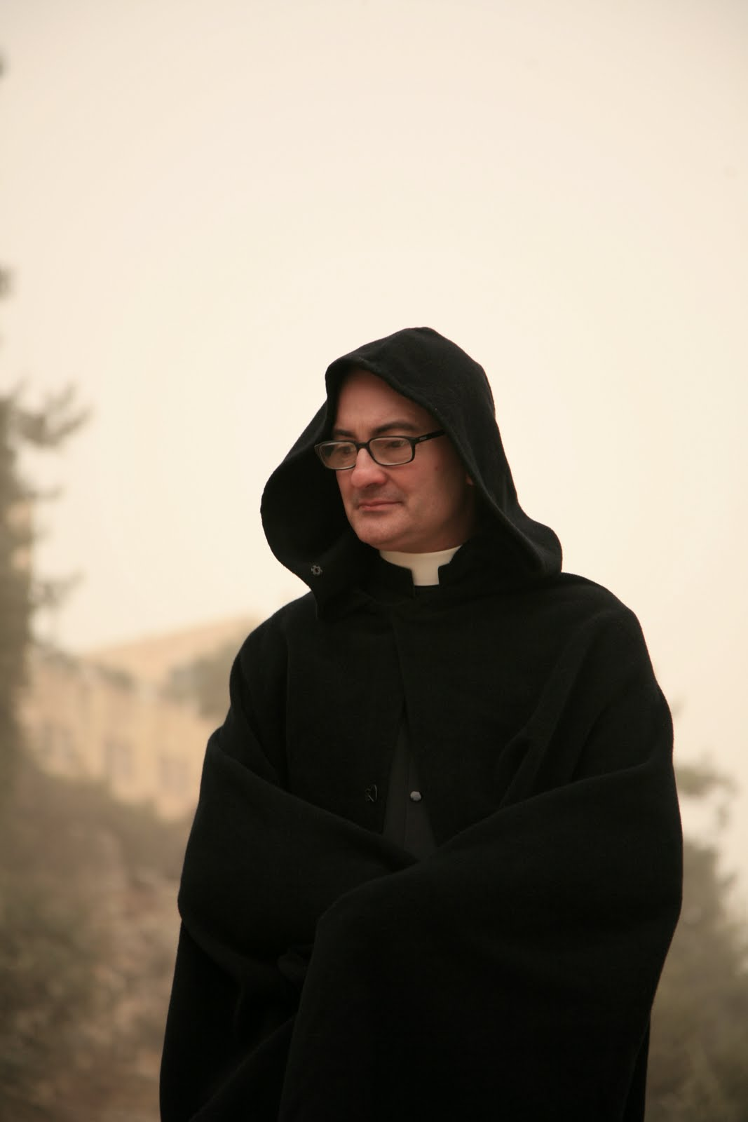 Priest Jose Antonio Fortea walks through Gehenna in Jerusalem